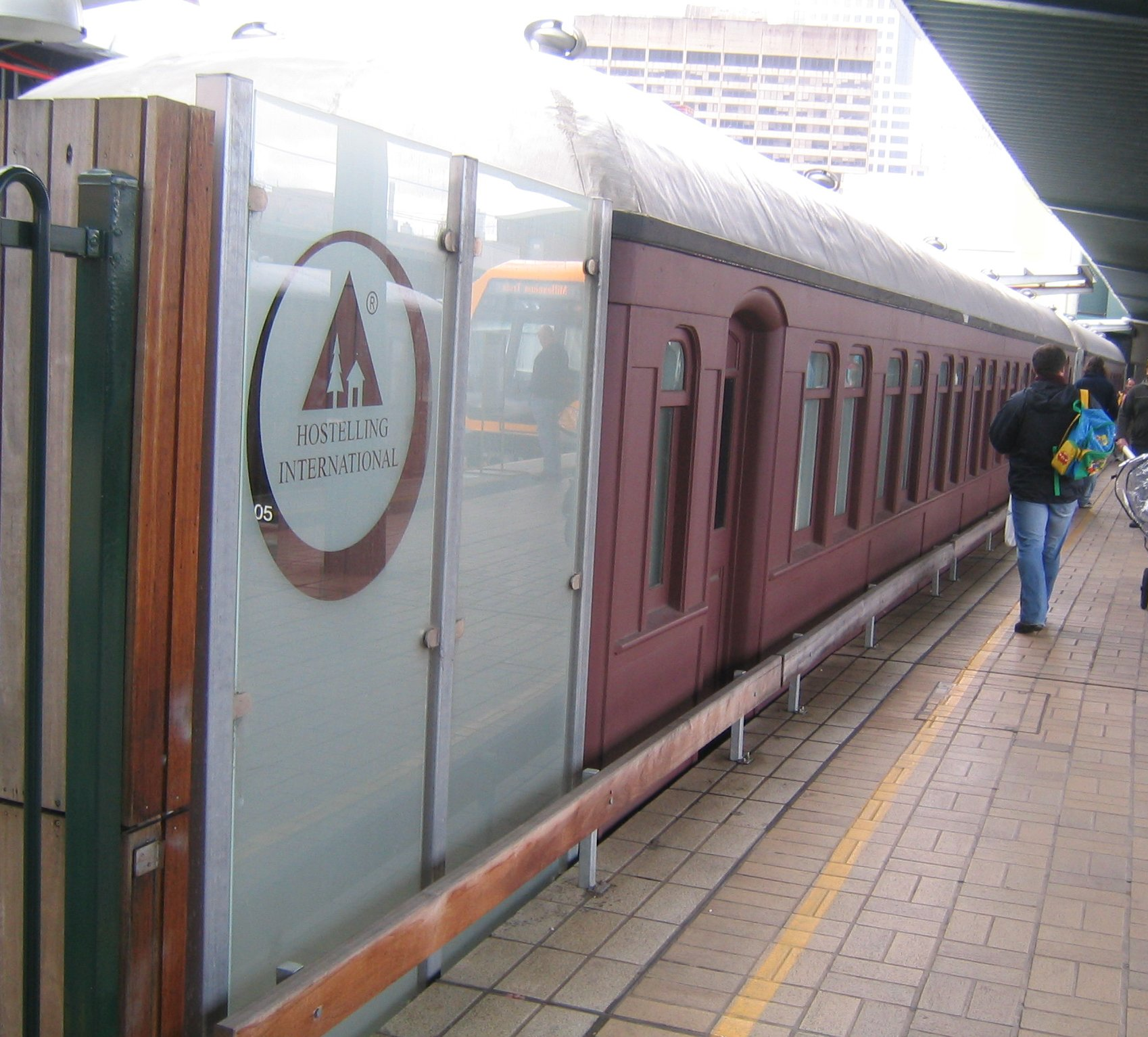 The Youth Hostel in the old mail sidings next to platform one of Central Station, Sydney Australia. The photo was taken at the 100 year anniversary celebrations of Central Station. The reflections in the glass are a H Set or OSCar (car number OD6905) and CPH railmotor number 18.